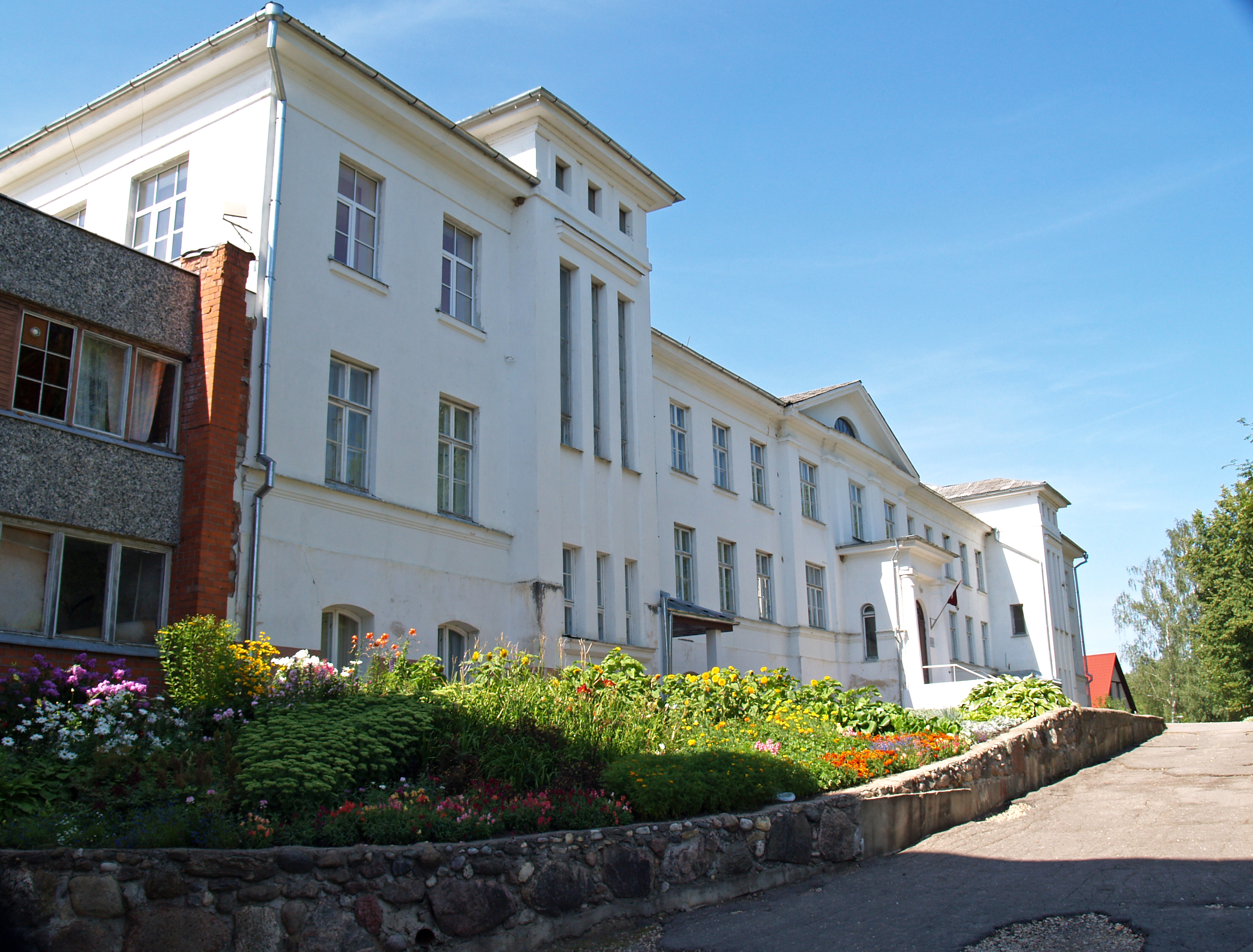 Internāts (Boarding-school)